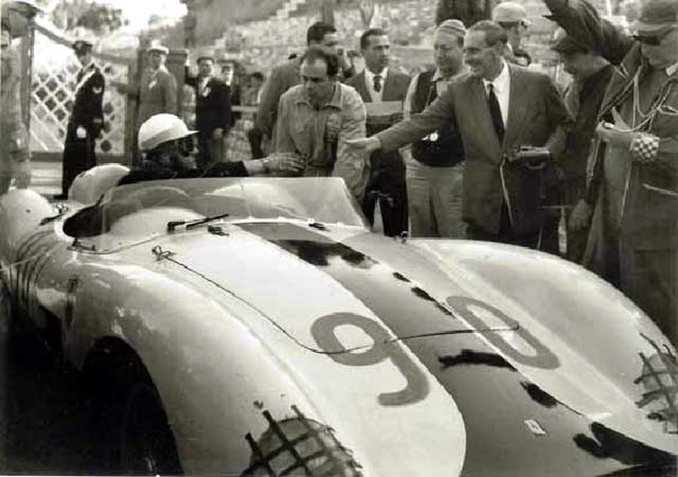 Gaetano Starrabba in his 1957 Ferrari 500 TRC s/n 0682MDTR at Targa Florio on 11 May 1958. He and his co-driver Franco Cortese ended in 7th place[1]